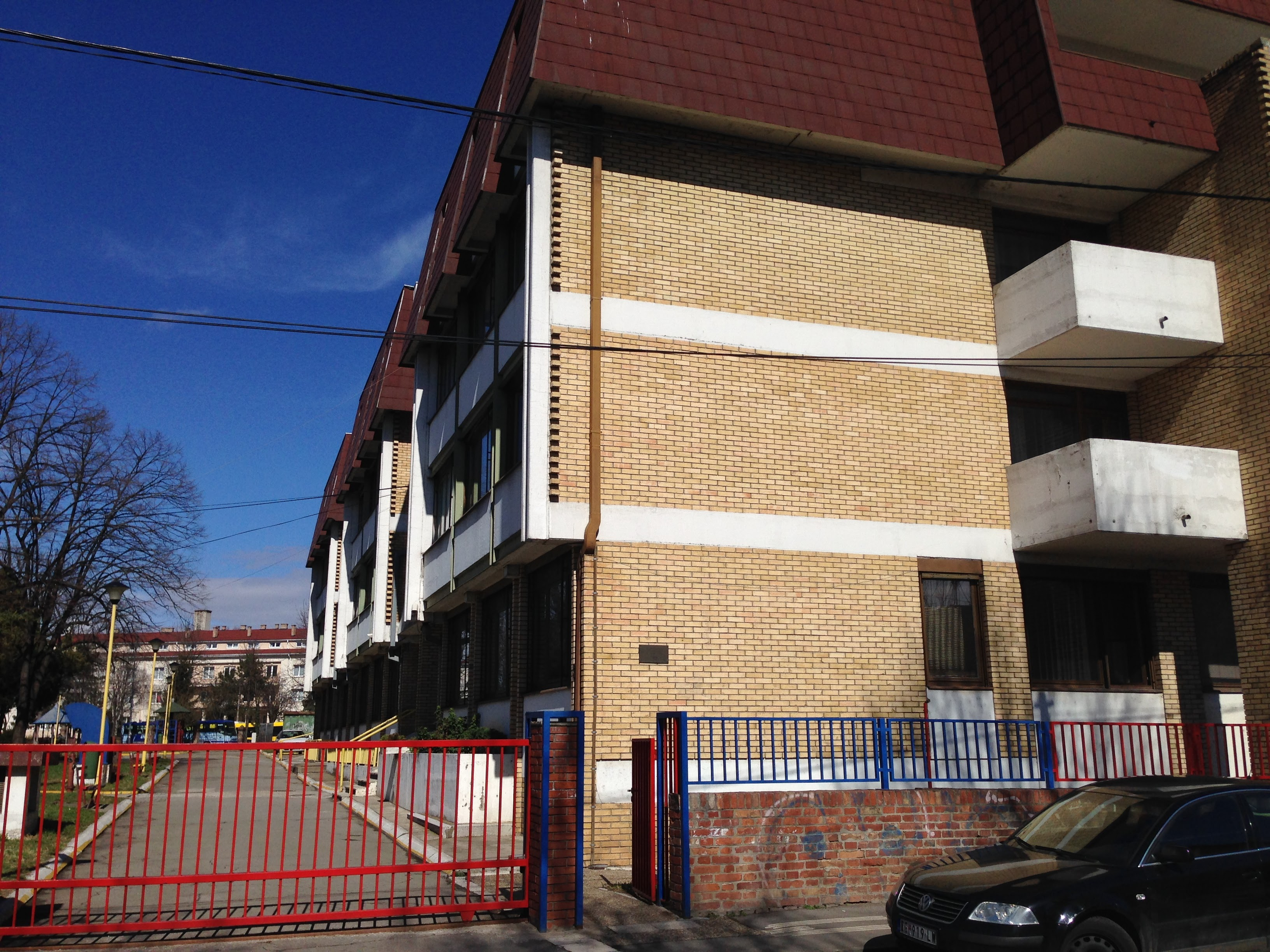 School for the visually impaired Veljko Ramadanovic Zemun Српски (ћирилица): Школа за ученике оштећеног вида Вељко Рамадановић Земун